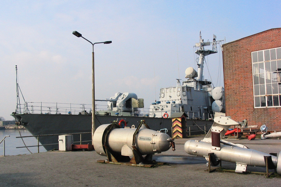 Peenemünde Historical and Technical Museum: a Tarantul-I class missile craft of the GDR-Volksmarine "Hans Beimler" Nr. 575